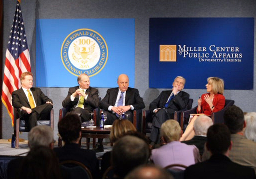 Ronald Reagan Presidential Foundation & Miller Center, University of Virginia